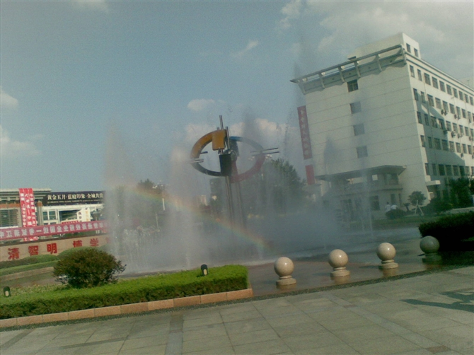 Qingjiang High School and fountain — in Jiangsu.